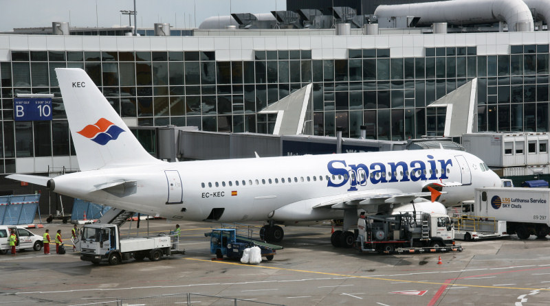 Airbus A320 of Spanair. EC-KEC. Frankfurt International Airport.